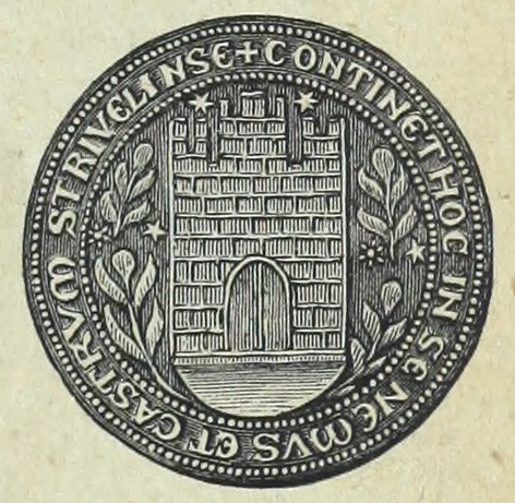 Stirling motto